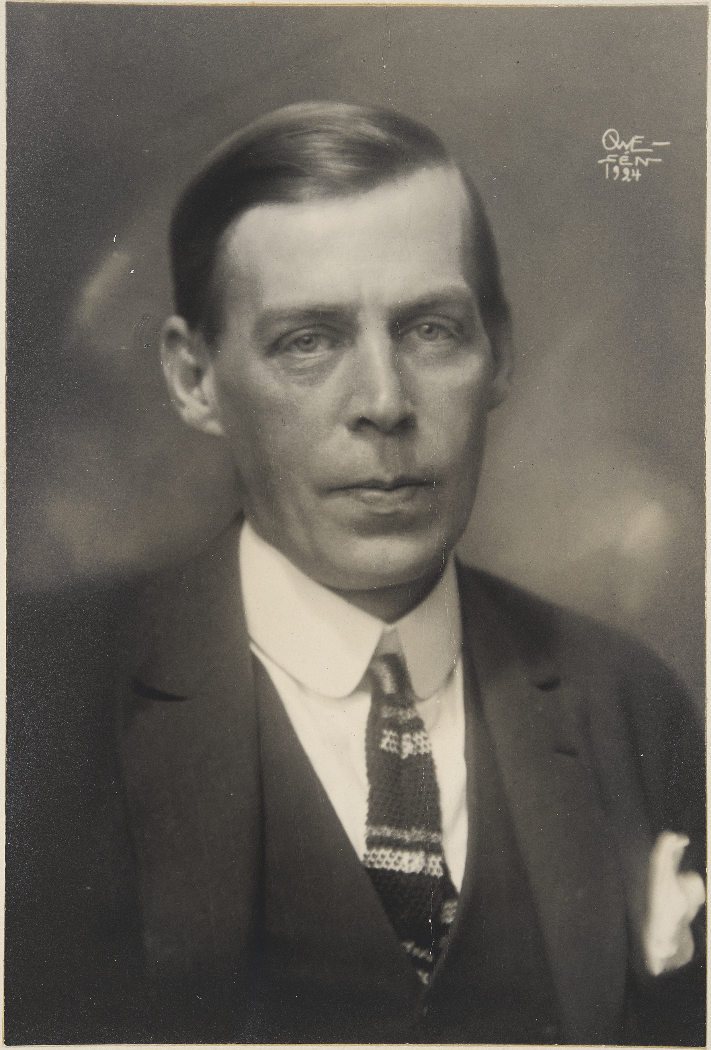 The Finnish actor and singer Bror Niska (1887-1952)